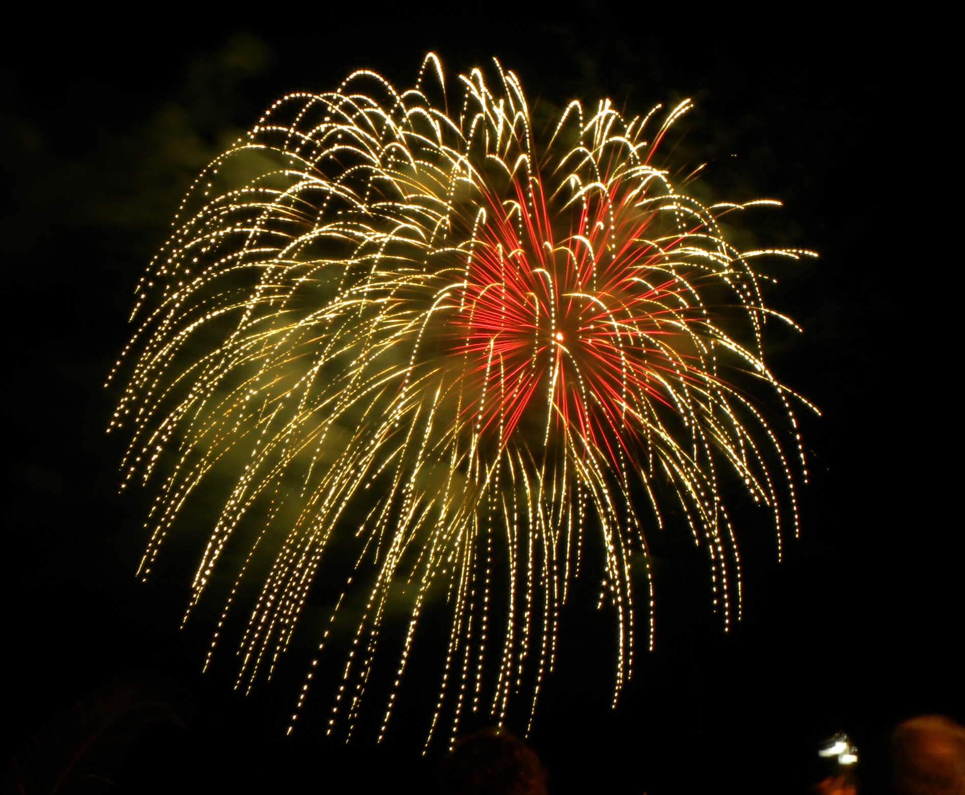 Firework in Vibonati (SA), Italy